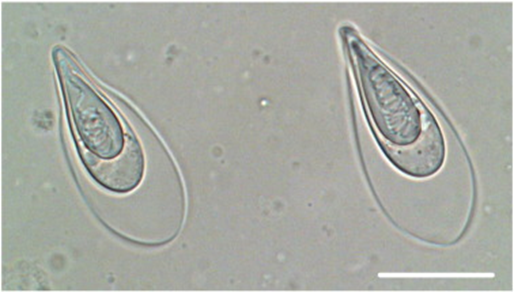 Figure 1: Fresh myxospores of T. kitauei from a skin smear of common carp; from Zhai et al. 2016; size bar 10 μm.